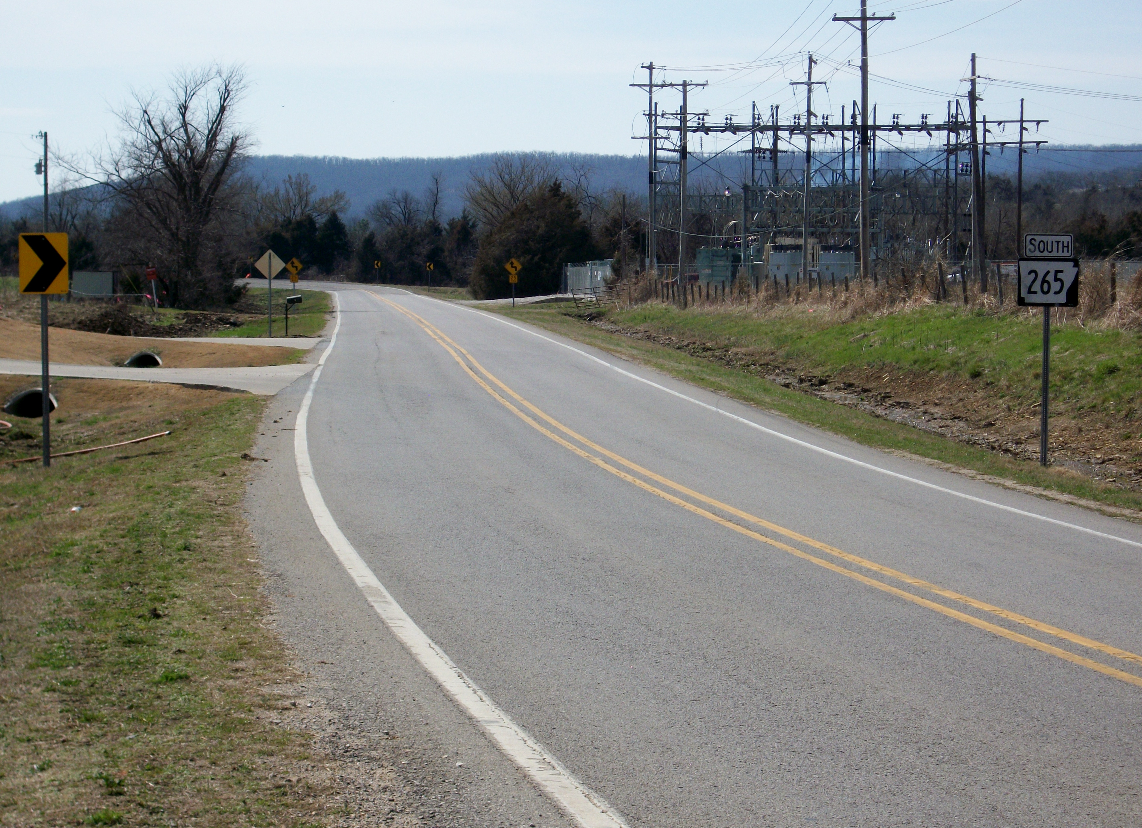 Arkansas Highway 265 Section 1 in west Greenland, Washington County, AR. It is formerly part of the Butterfield Stagecoach Route from St. Louis to San Franscisco.